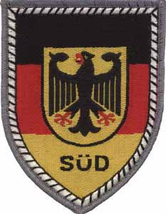 coat of arms Territorialkommando Süd (TerKd Süd) of the Bundeswehr (Armed Forces of the Federal Republic of Germany). → Remarks on naming and categorization scheme